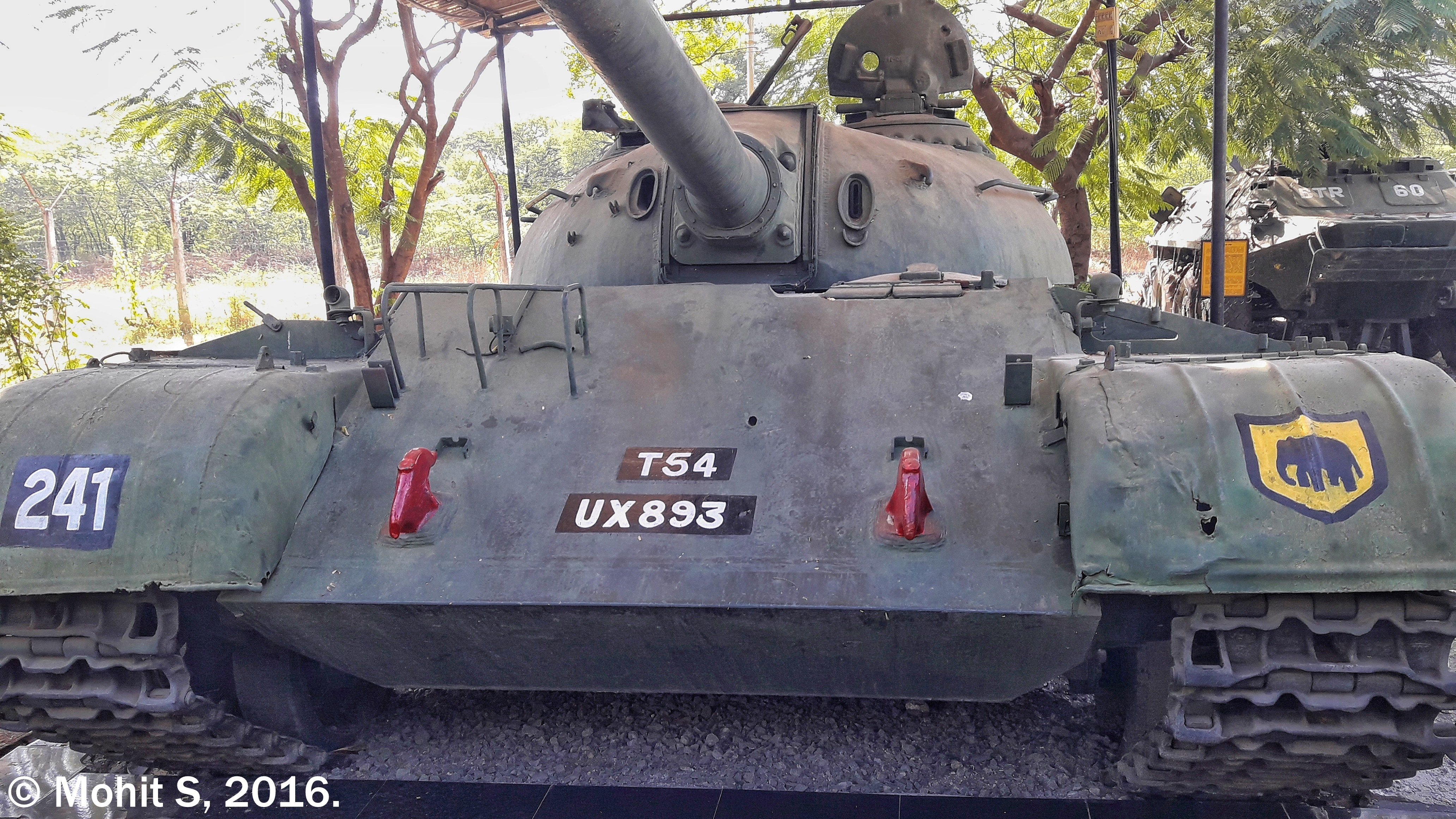 Soviet T-54 Tank. The most produced and widely used tanks by different countries around the world. One of my favourite tank in the museum, This tank had the engine and there was smog dust in the exhausts. Means the tank could be in working condition. (The picture is been edited) -More informationℹ about the Asia's only historic tank museum can be found here and here Location: Cavalry Tank museum, Maharashtra, India. Clicked from Samsung J7-6.